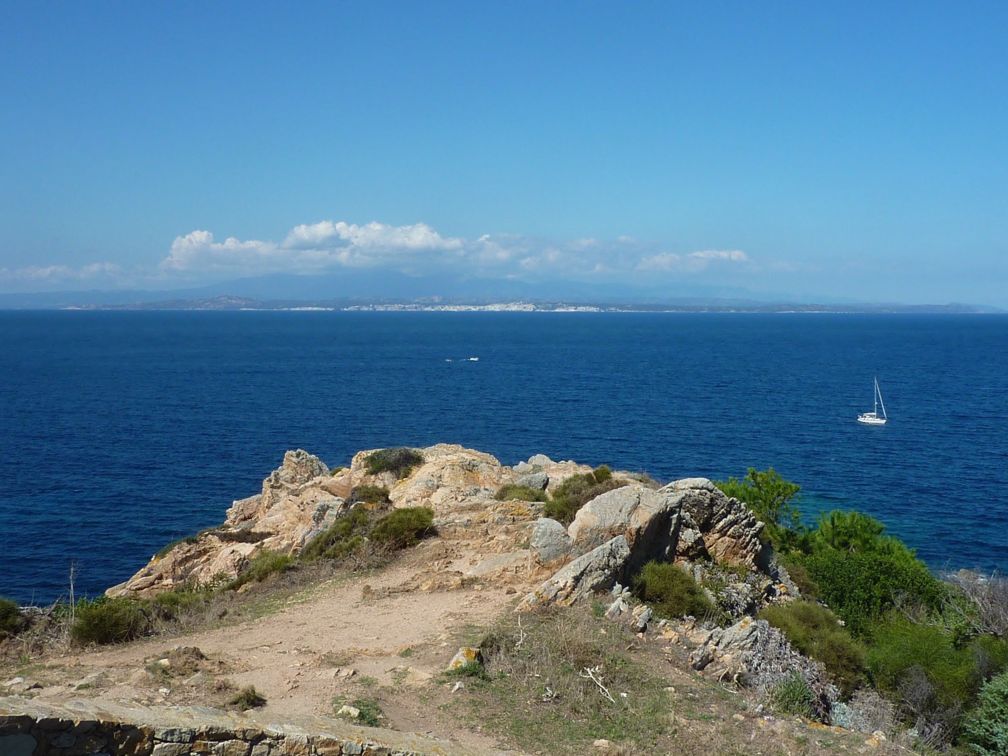 Strait of Bonifacio (Bouches de Bonifacio in Corsica) from Capo Testa, Santa Teresa Gallura, Sardinia.